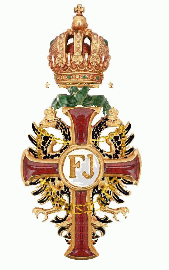 Officer Order of Francis Joseph